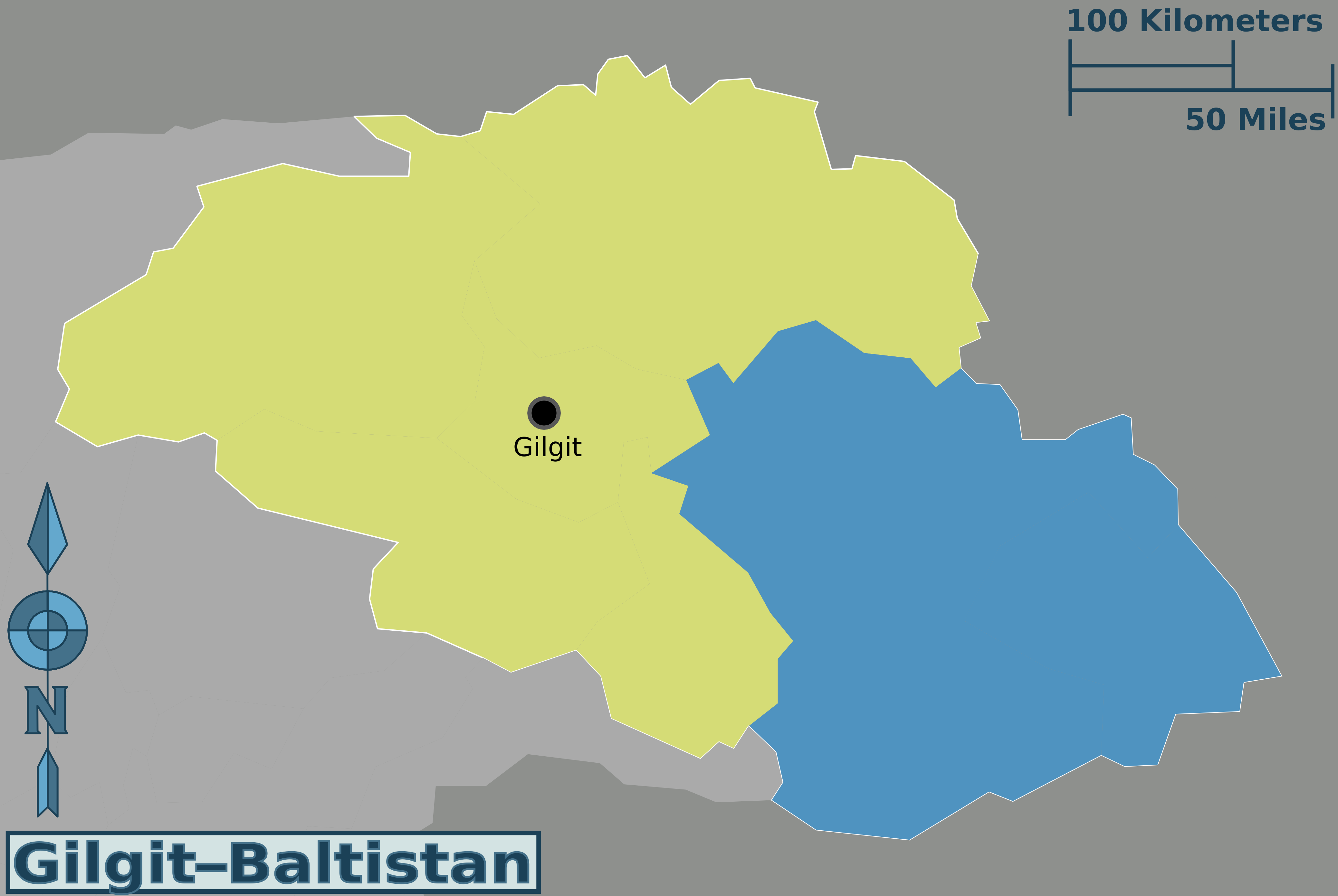 Divisions of Gilgit-Baltistan